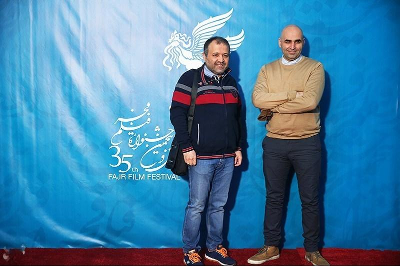 Day 4 of 35th Fajr International Film Festival at Mellat Pardis